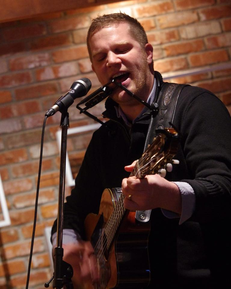 Andrew Scott, folk and alternative country musician, in concert in Edmonton, Canada.